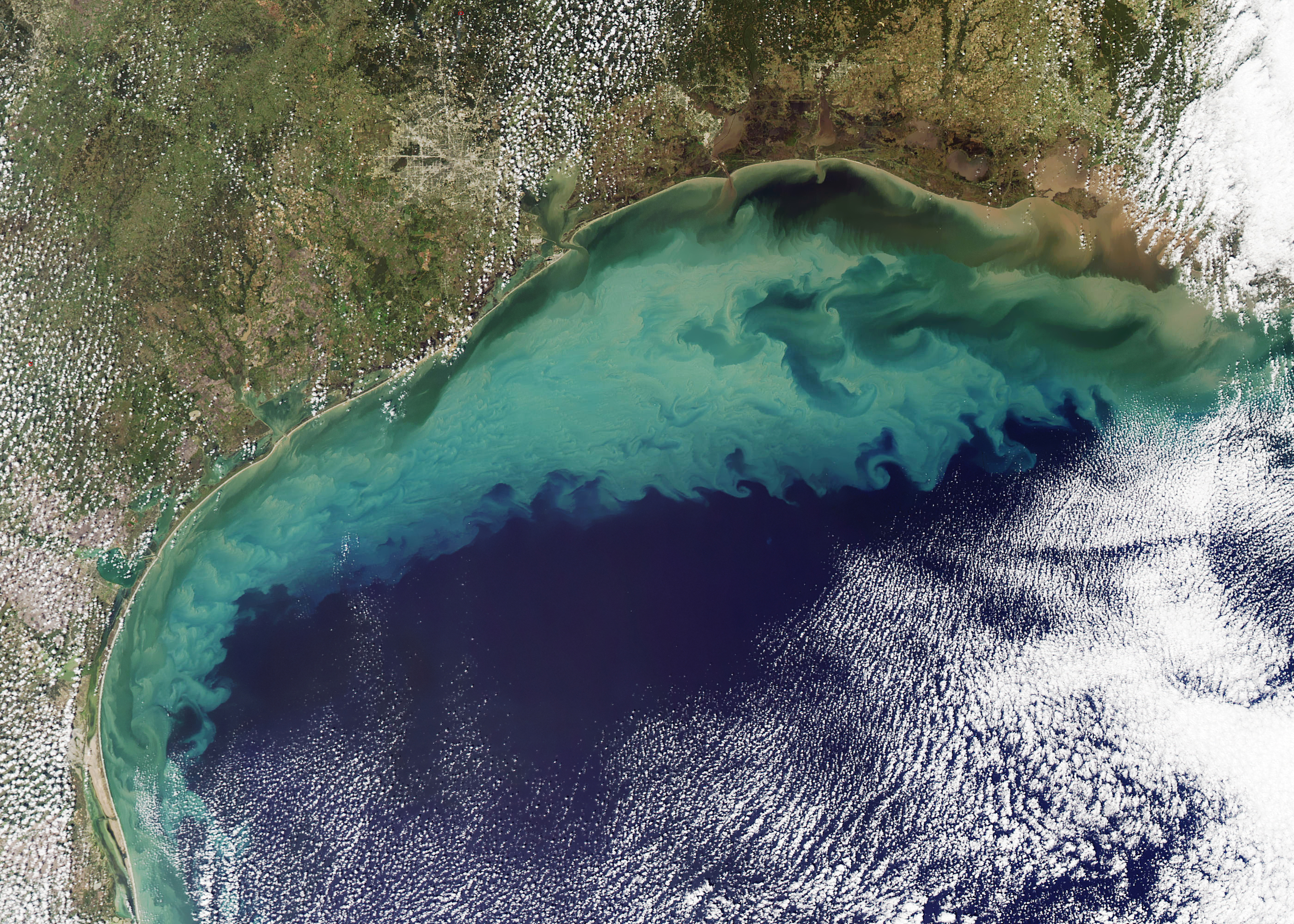 Much of the dirt that colours the water is likely re-suspended sediment dredged up from the sea floor in shallow waters. The tan-green sediment-coloured water transitions to clearer dark blue water near the edge of the continental shelf where the water becomes deeper. The ocean turbulence that brought the sediment to the surface is readily evident in the textured waves and eddies within the tan and green waters. Tropical Storm Ida had come ashore over Alabama and Florida, immediately east of the area shown here, a few hours before the image was acquired. The storm’s wind and waves may have churned up waters farther west. A second source of sediment is visible along the shore. Many rivers, including the Mississippi River, drain into the Gulf of Mexico in this region. The river plumes are dark brown that fade to tan and green as the sediment dissipates. Rivers throughout the region ran high, likely carrying more sediment than usual into the Gulf. The rivers also carry nutrients like iron from soil and nitrogen from fertilizers. These nutrients fuel the growth of phytoplankton, tiny, plant-like organisms that grow in the ocean surface waters. Phytoplankton blooms colour the ocean blue and green and may be contributing to the colour seen here.